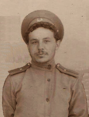 Pavel Nedonoskov, shtabs-kapitan in time of the WW1